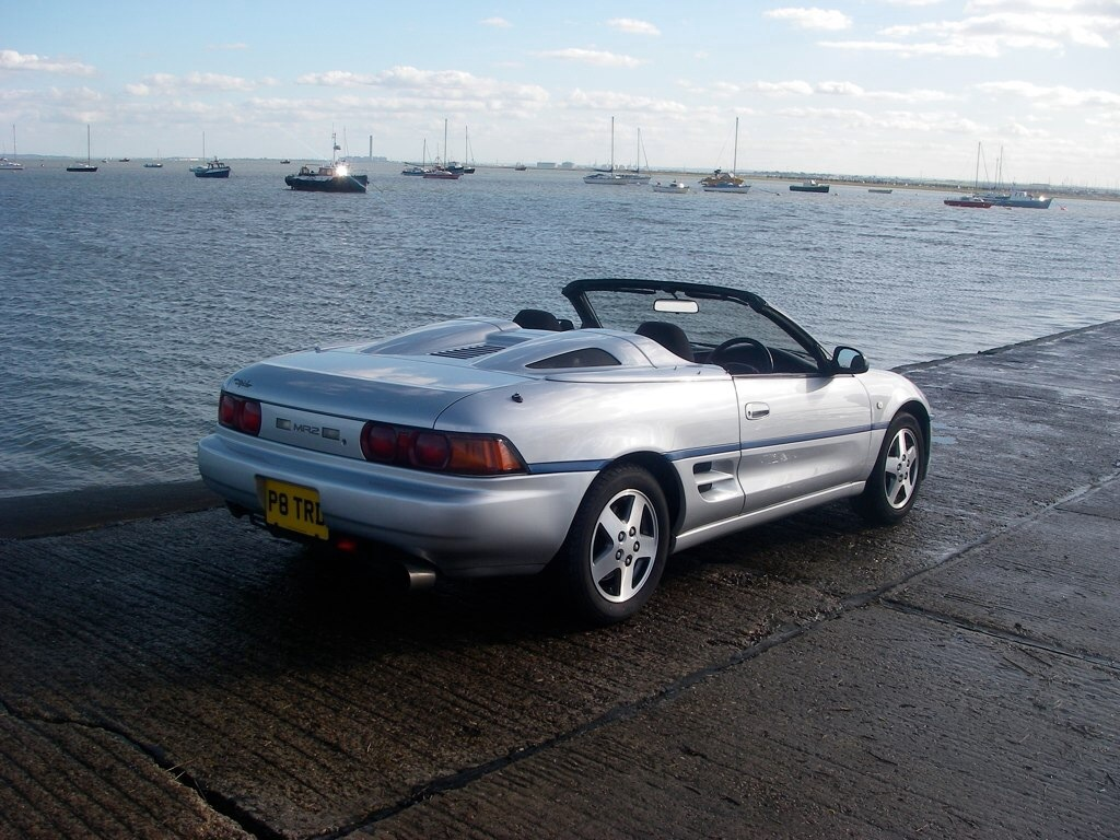 sw 20 spider